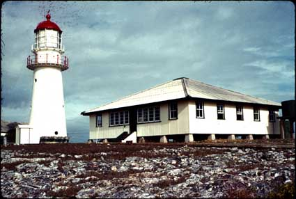 Booby Island Light and No. 2 Quarters, 1957